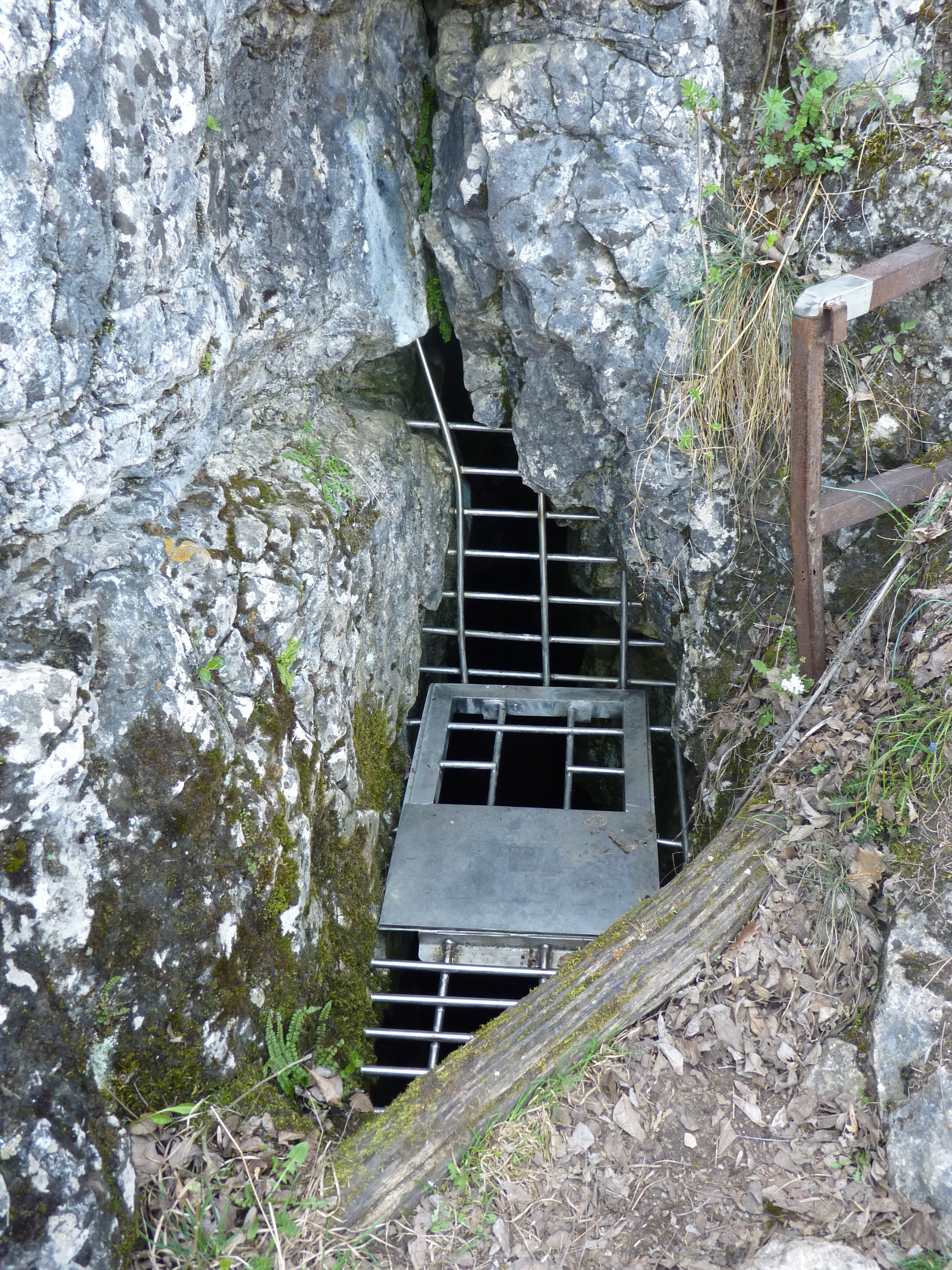 Entrance of Öreg-kő cave No. 1.